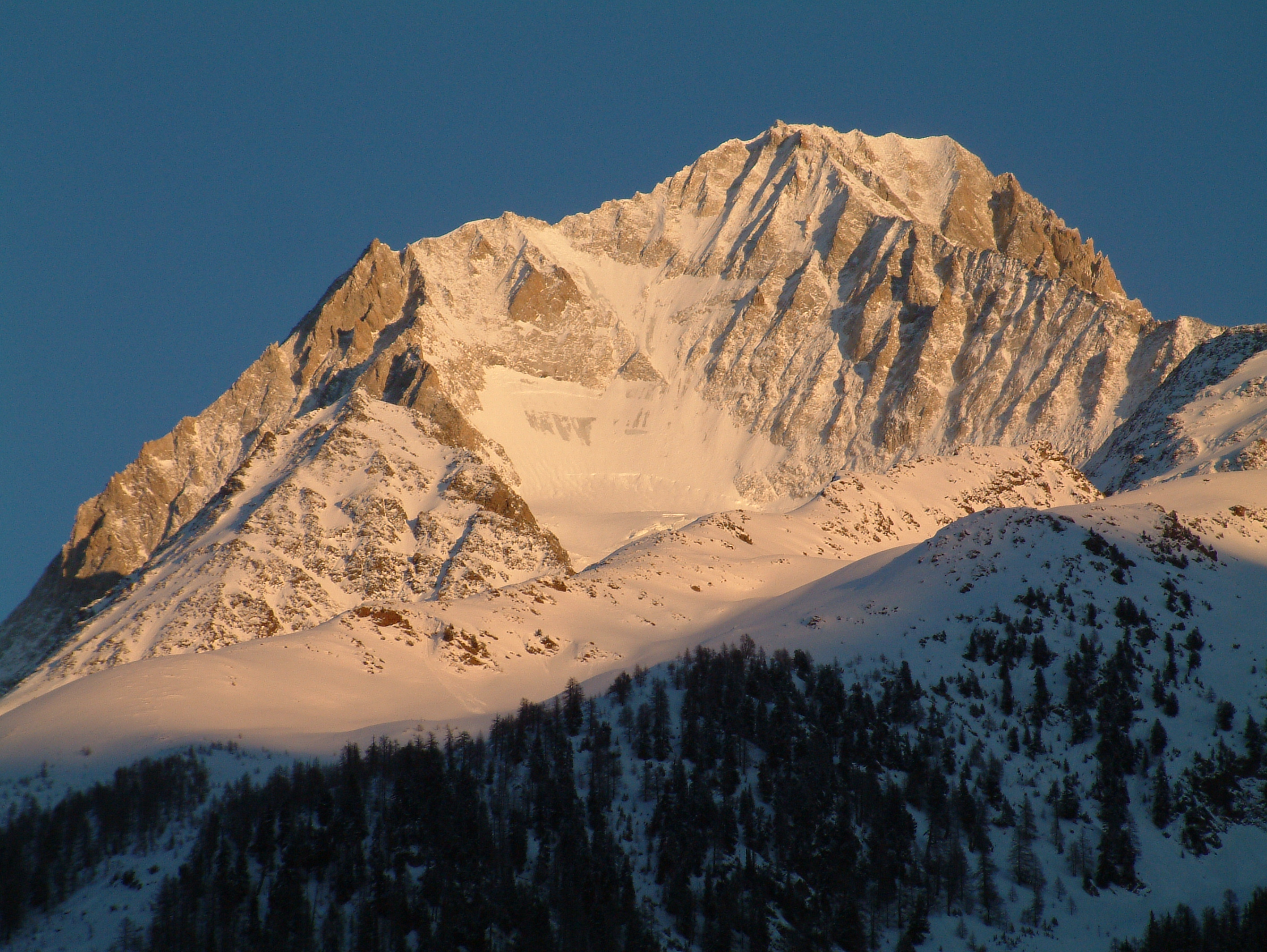 Bietschhorn (3994m), Bernese Alps / Switzerland. Seen from Wiler/Lötschental.